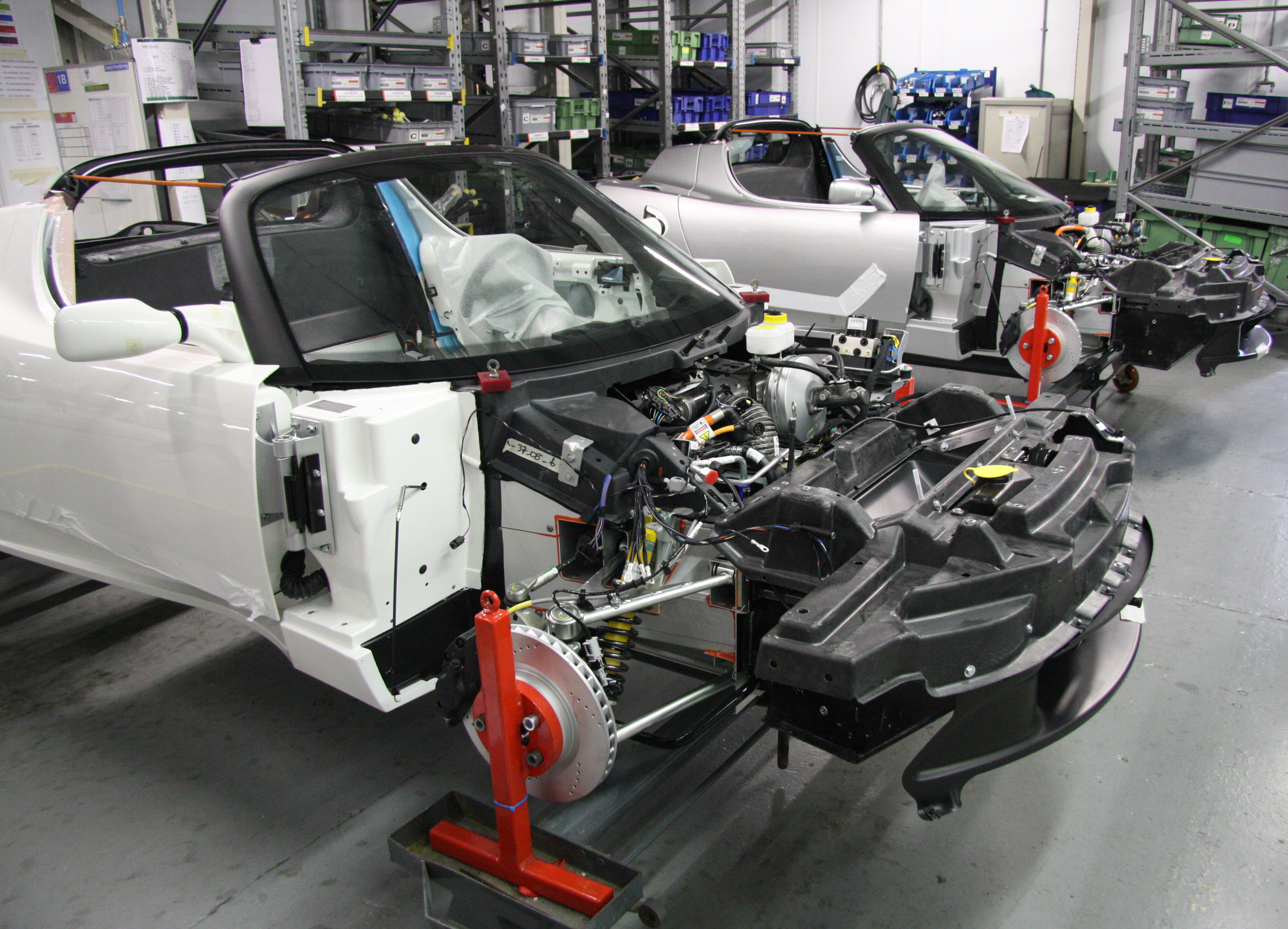 Lotus 60th Celebration.